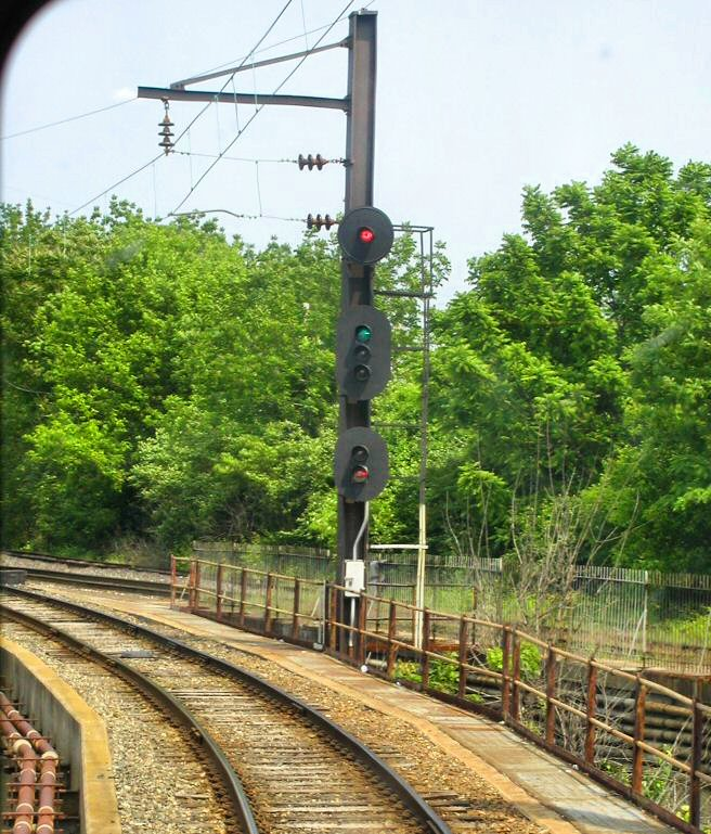 12L signal at SEPTA KALB interlocking displaying Medium Clear for an inbound R6 train.